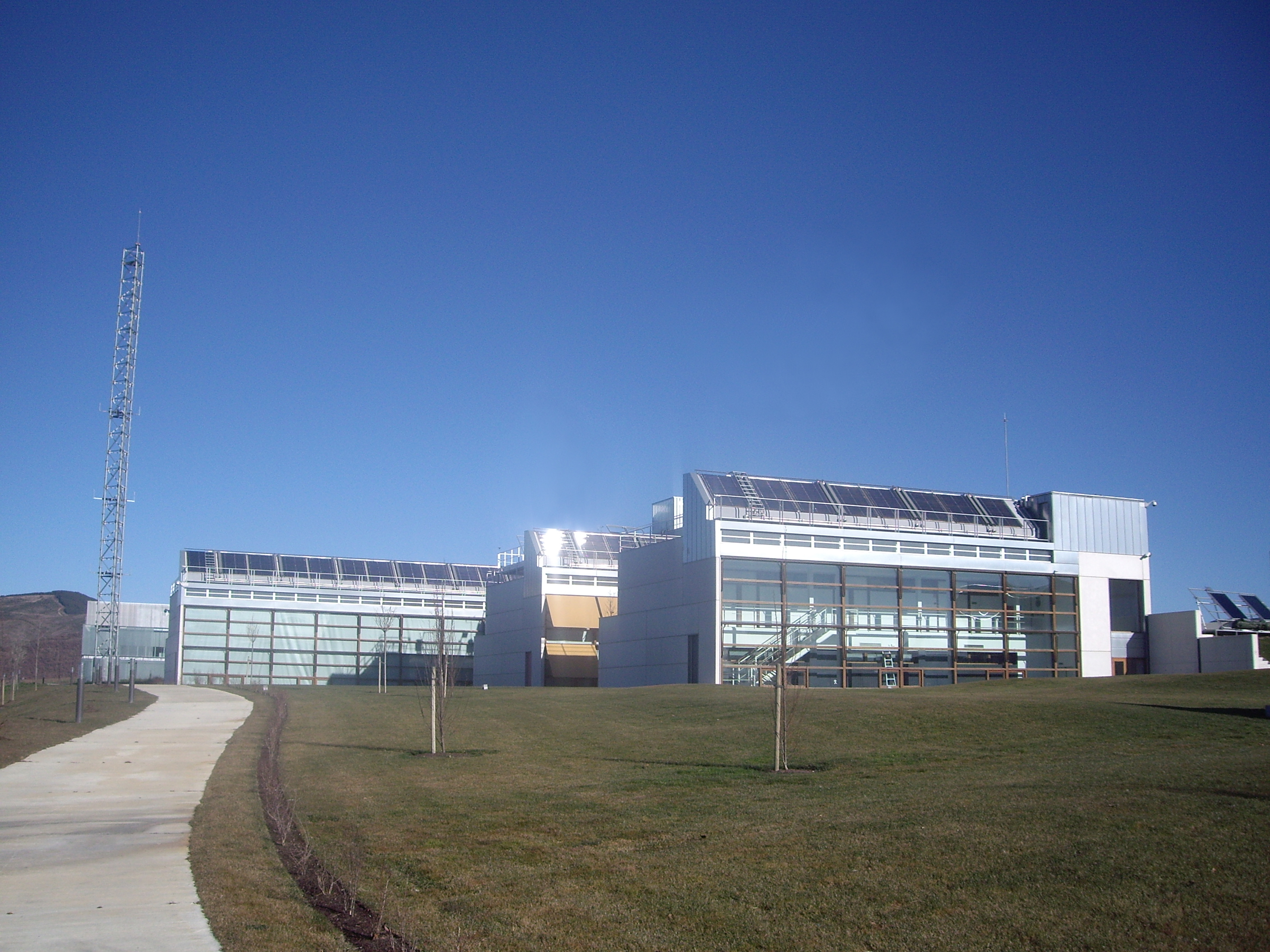 National Center of Renewable Energy, Pamplona (Navarre)